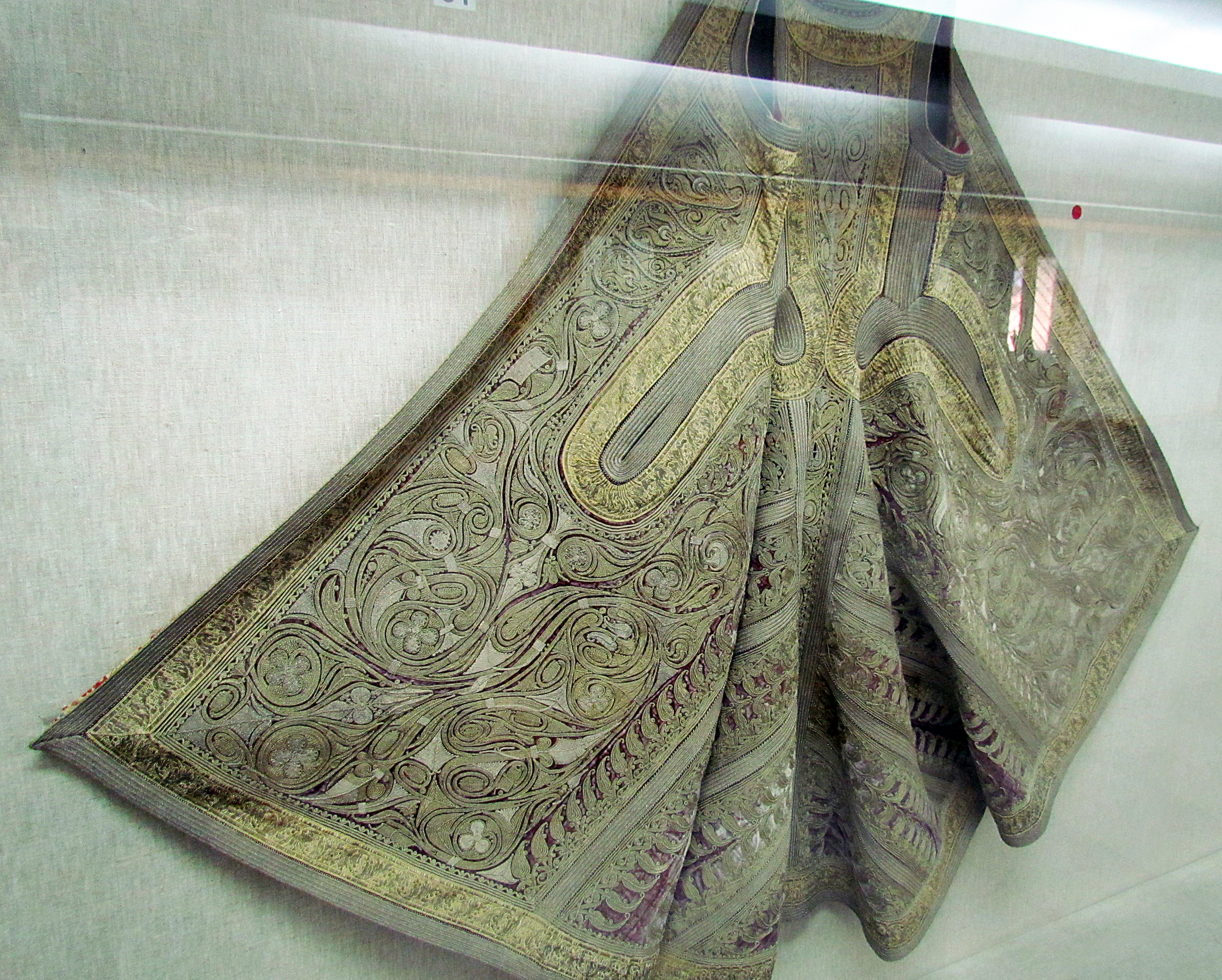 Džube, Serbian traditional clothing